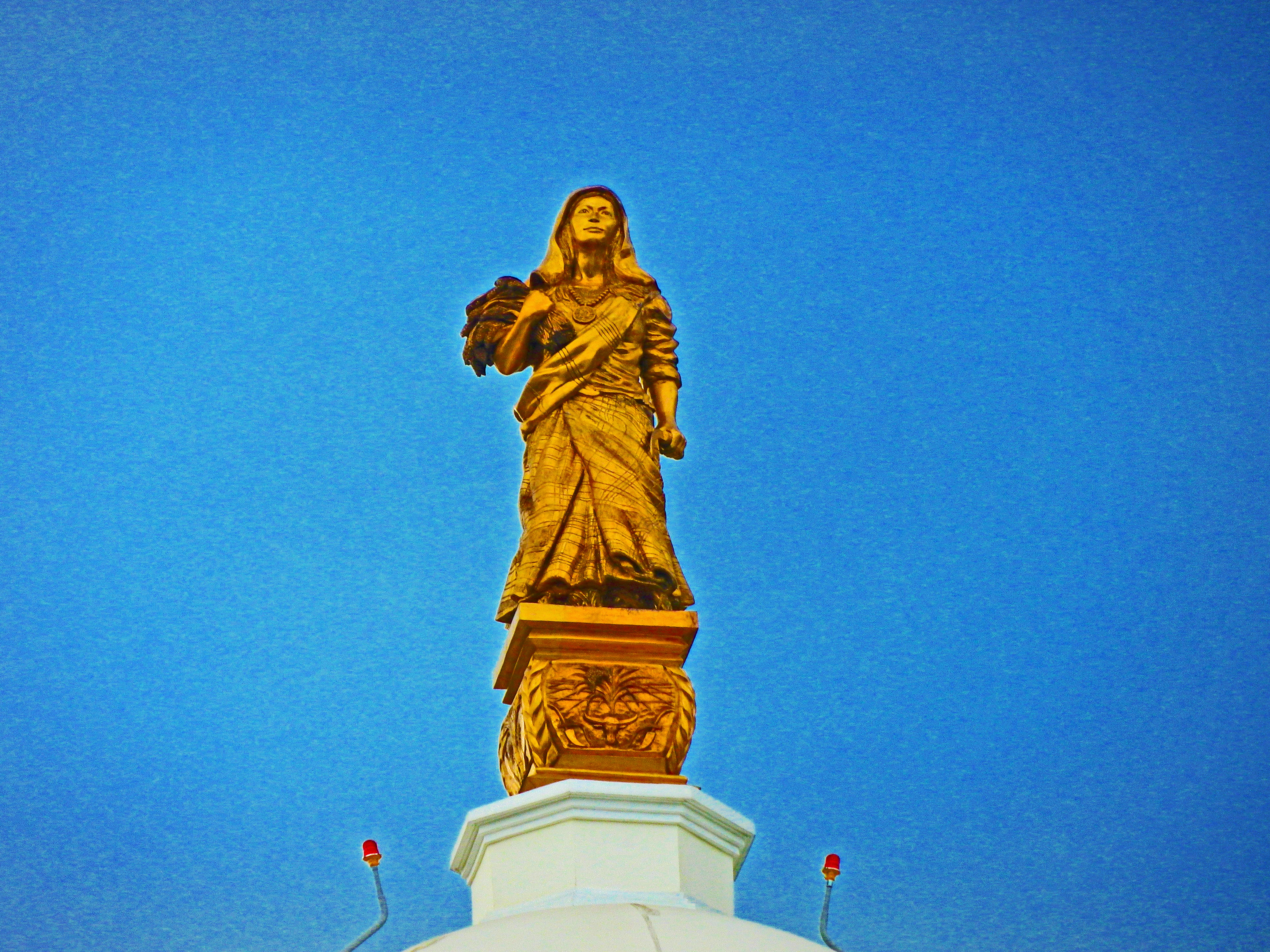 Commissioned by the Mayor of Iloilo City, Jed Patrick Mabilog, in 2011. "Ang Lin-ay Sang Iloilo" (The Lady of Iloilo) is an 18-foot bronze statue installed at the Dome of the New Iloilo City Hall. Sculpted by Ilonggo artist, Ed Defensor, the statue stands as a symbol of the prosperity, the rich cultural heritage, and the pride of the City and Province of Iloilo in Central Philippines..The figure shows a native Ilonggo lady attired in the native costume of Iloilo holding a scythe in her left hand and stalks of harvested rice in her right arm. She stands on a pedestal whose four sides are carved respectively with relief sculptures showing the four major assets of the City and Province of Iloilo--rice farming, sugar cane farming, fishing, and education. The whole sculpture weighs approximately 1.7 tons. The sculpture was installed in August of 2011.